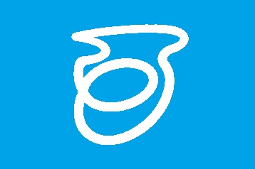 Flag of Izu Shizuoka.